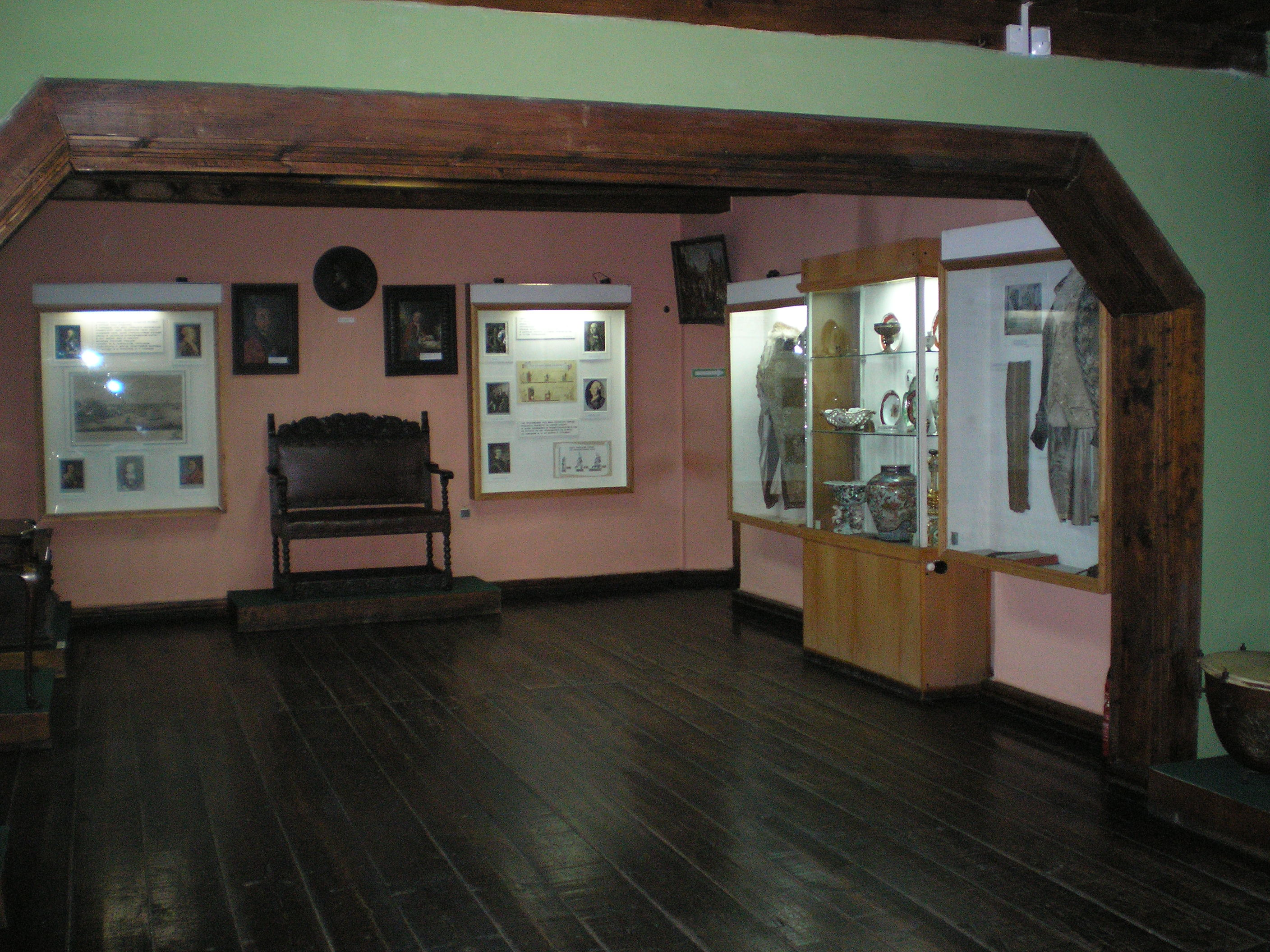 In the Suvorov Museum in Kobrin